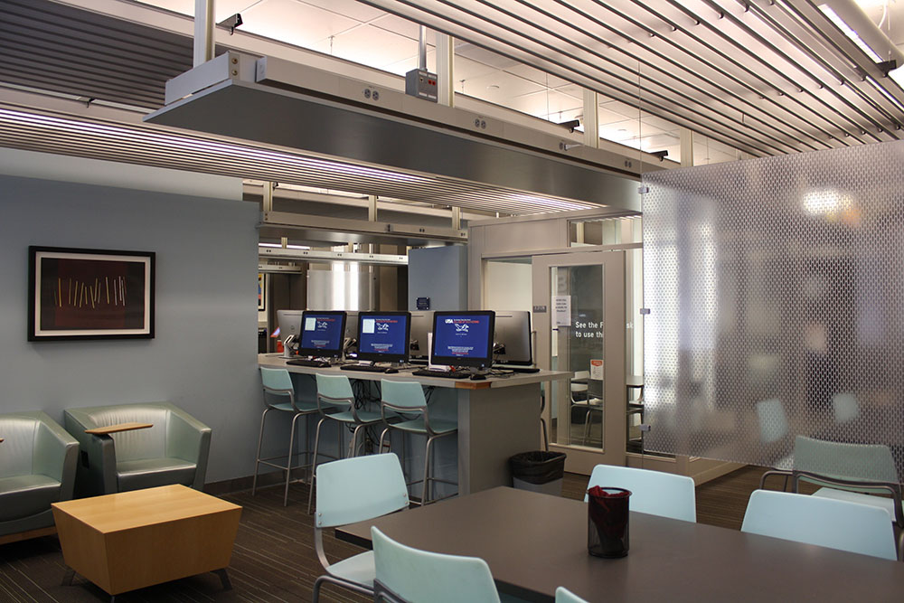 University of Texas at San Antonio AET Library